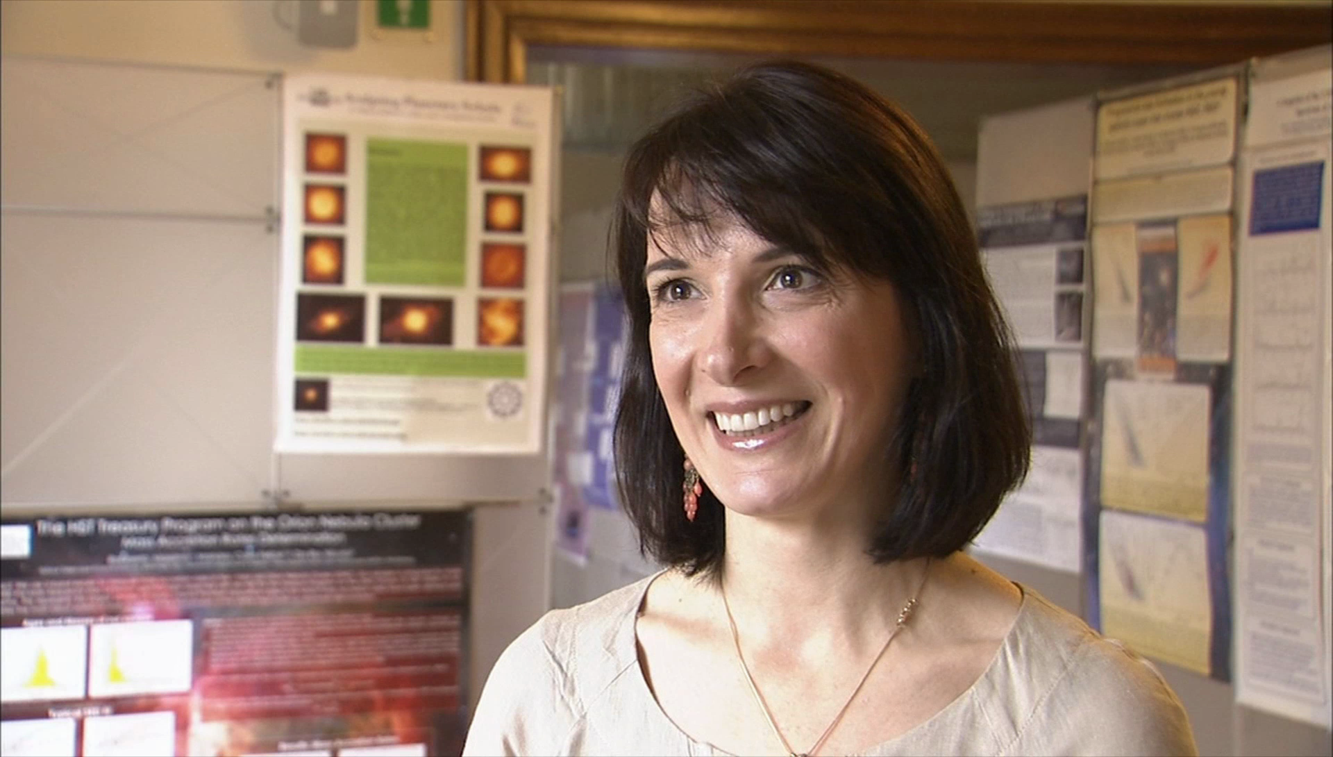 Still of Laura Ferrarese from video interview from Hubble. , the source of this image, stipulates that all video and web content are released under Creative Commons 4.0